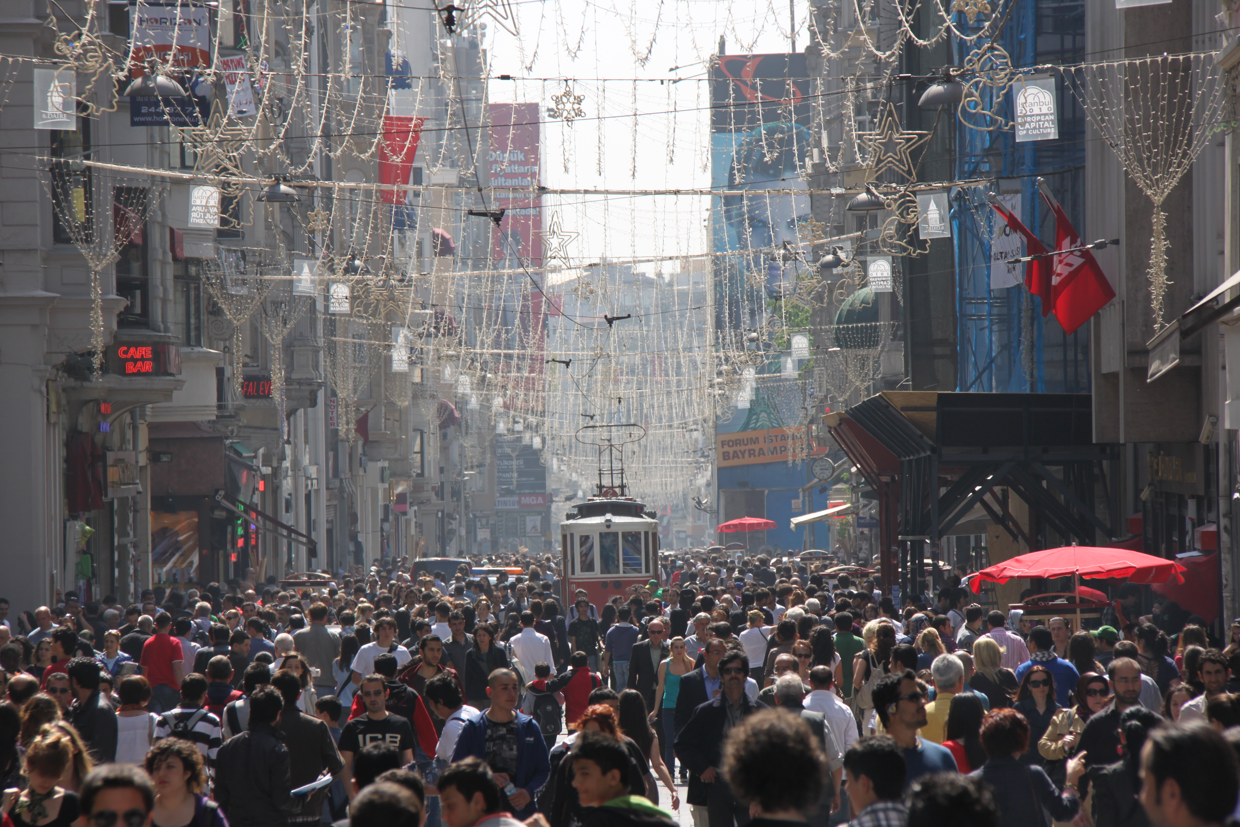 İstiklal Avenue on a Friday afternoon in May, Istanbul